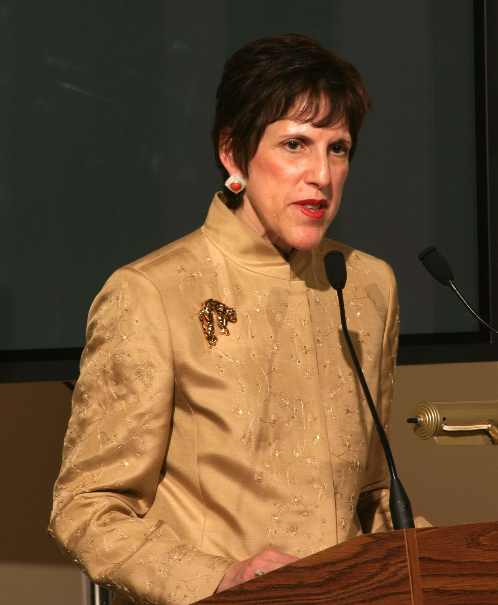 Photograph of Madeleine Jacobs, chemist and recipient of the 2004 Award for Executive Excellence, sponsored by Commercial Development and Marketing Association and the Chemical Heritage Foundation, presented 17 June 2004, at Heritage Day, Chemical Heritage Foundation, Philadelphia, PA, USA.